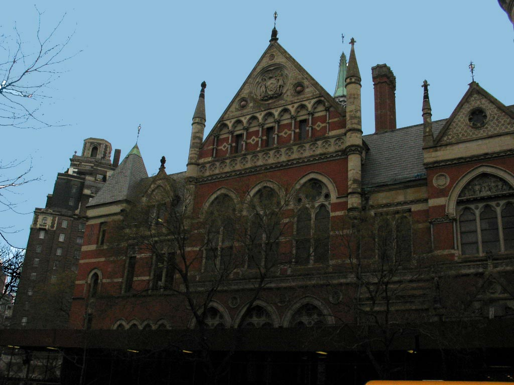 Jefferson Market, now serves as a New York Public LIbrary Branch in Greenwich Village